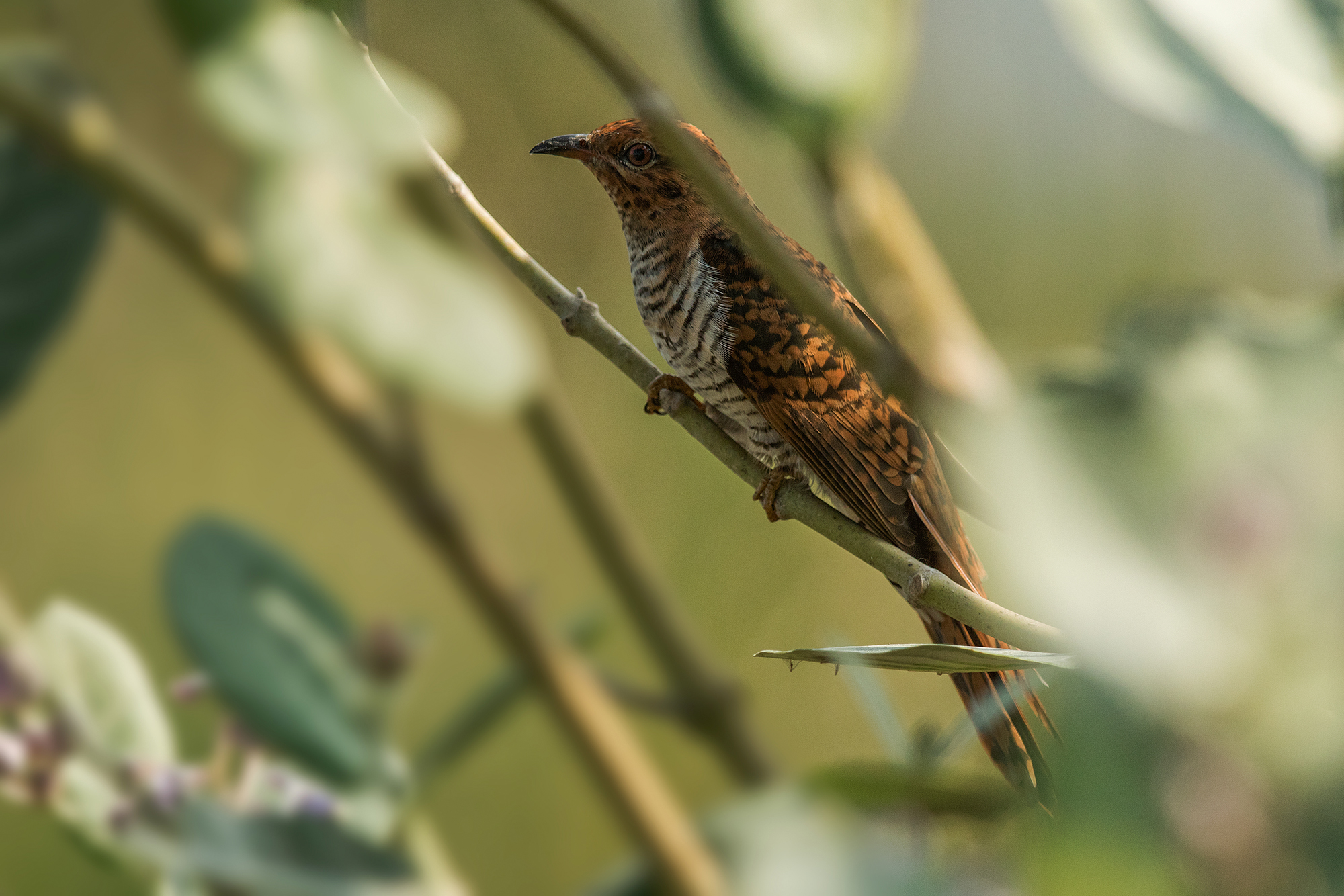 species of bird belonging to the genus Cacomantis in the cuckoo family Cuculidae.